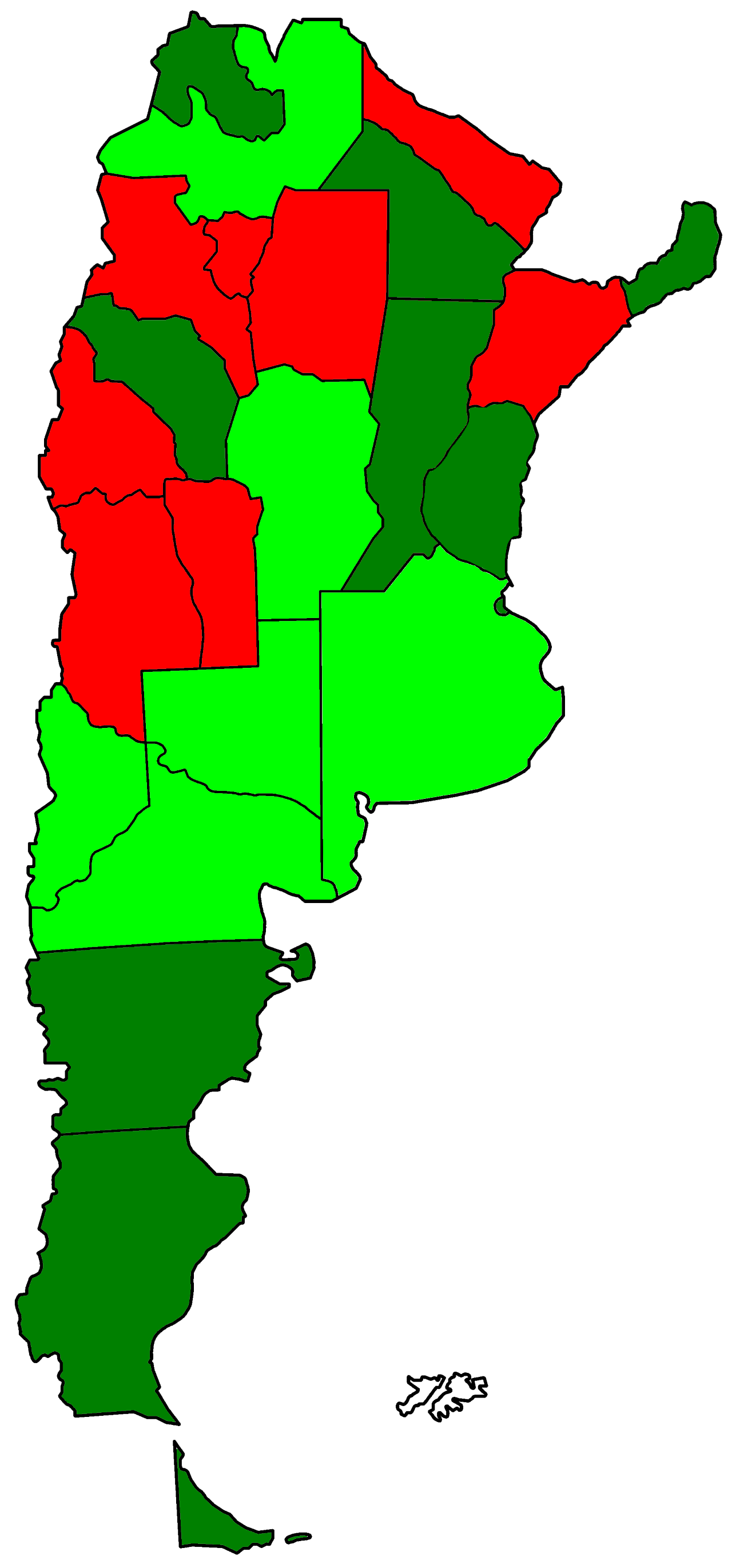 Abortion protocol in Argentina